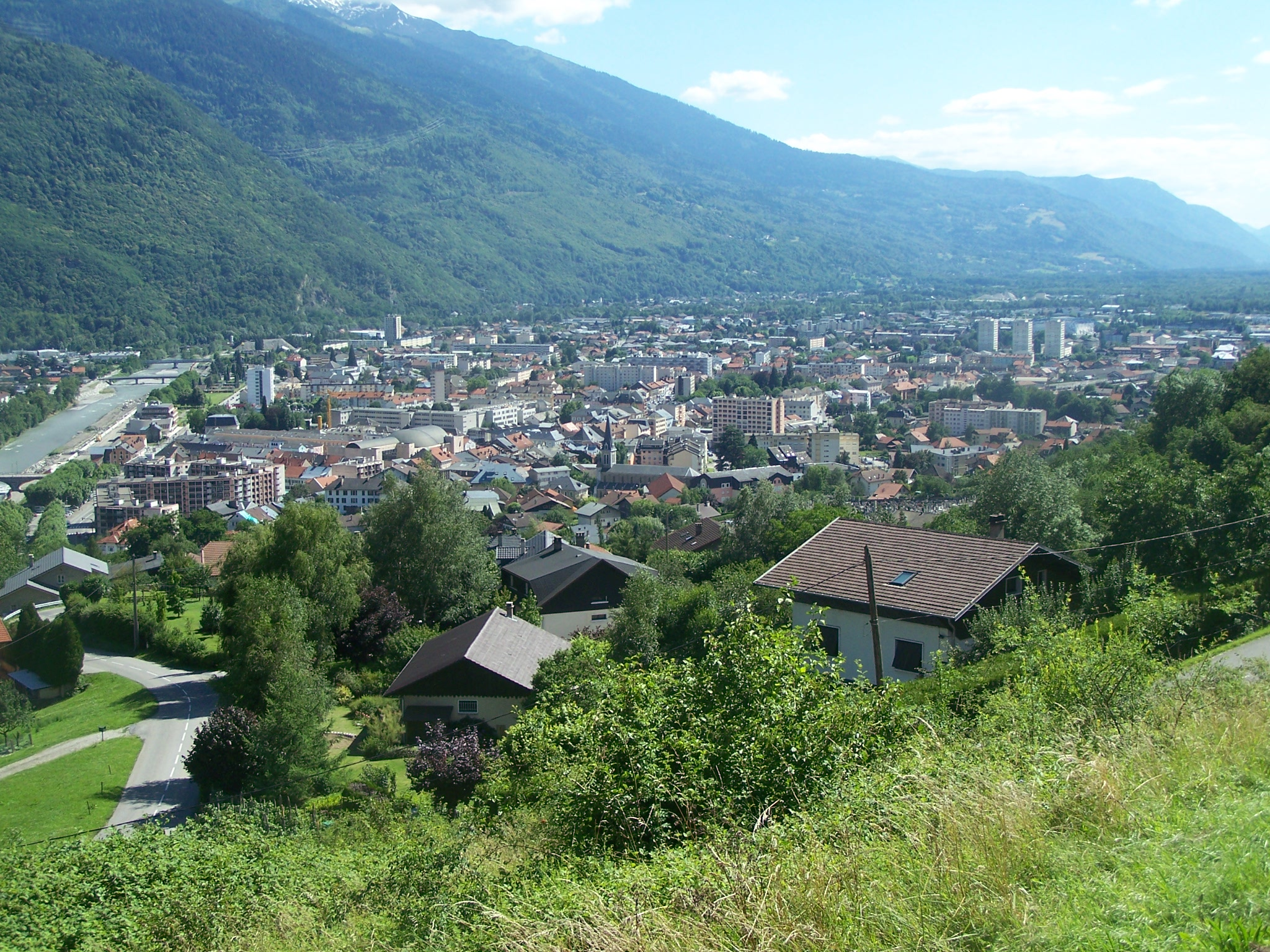 The Savoyan commune of Albertville seen from the village of Pallud.